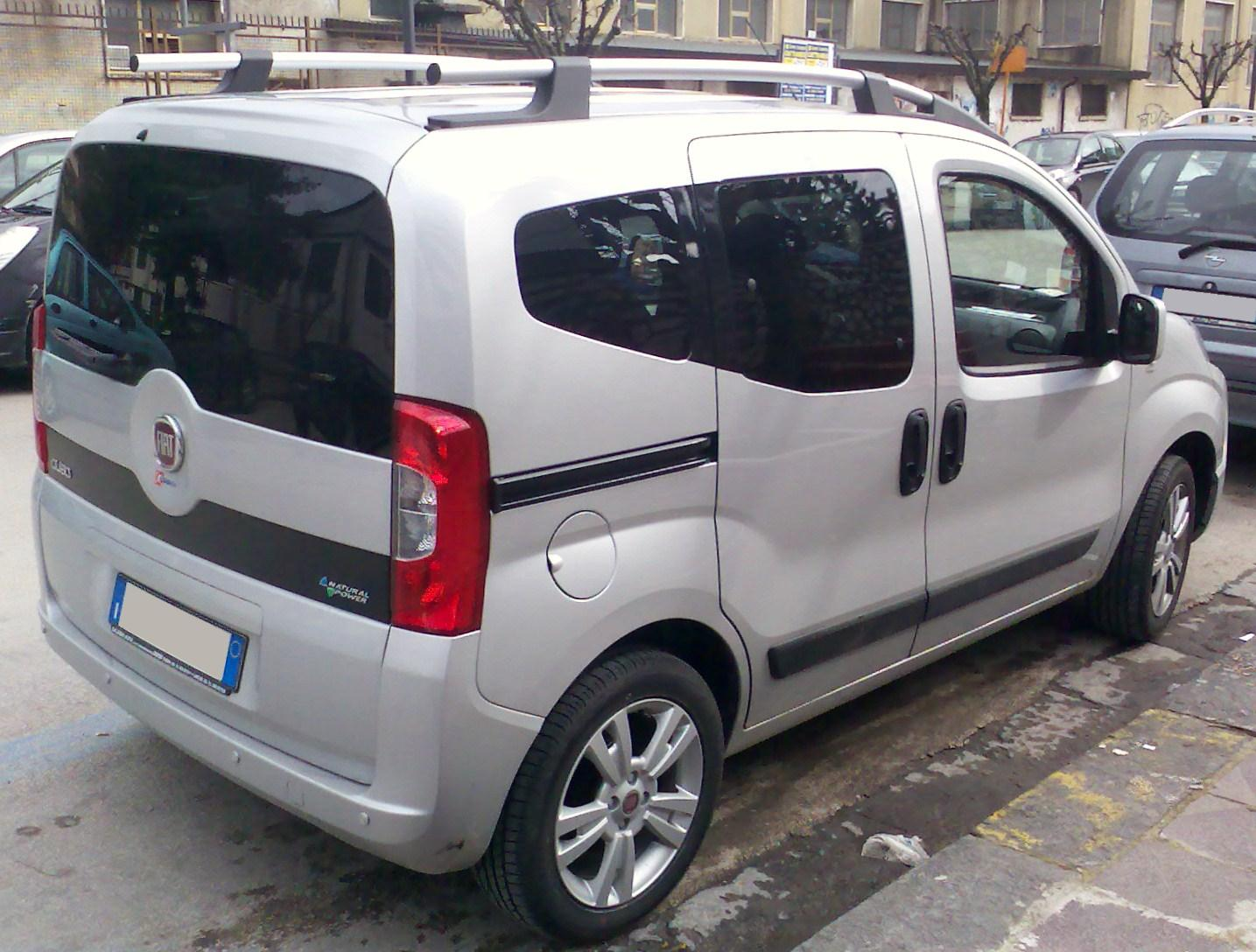 2010 Fiat Qubo Natural Power